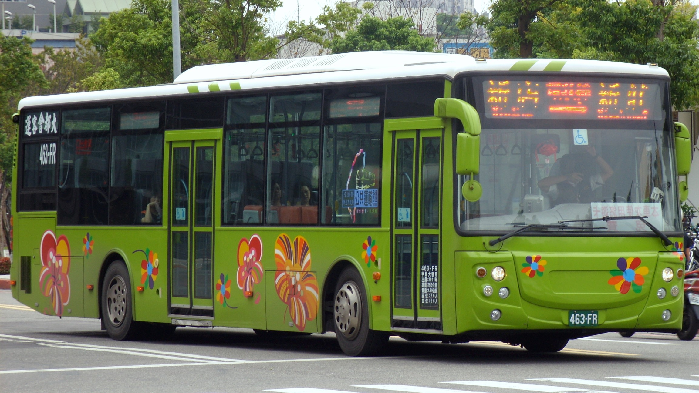 Metropolitan Transport Corporation - FUTON BJ6123.